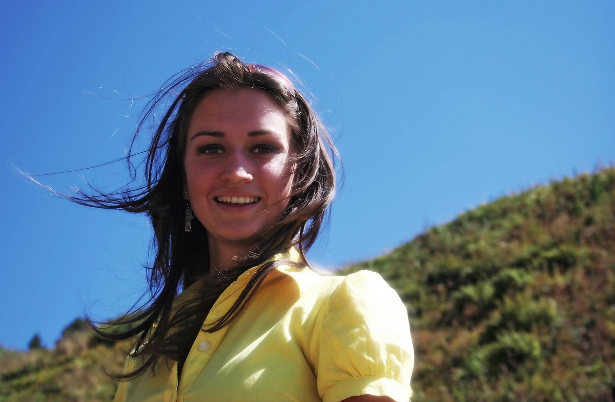 Kosovar Albanian woman